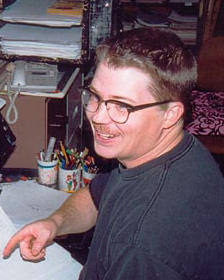 Voice actor C. Martin Croker.